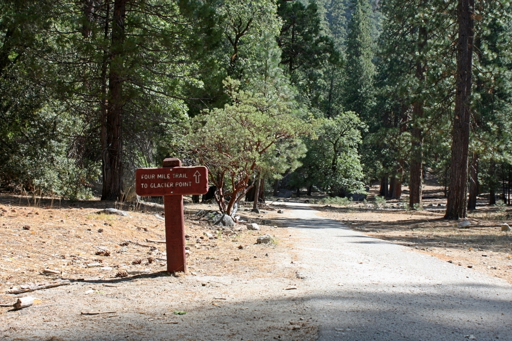 The trailhead of the Four Mile Trail in Yosemite National Park, California, United States